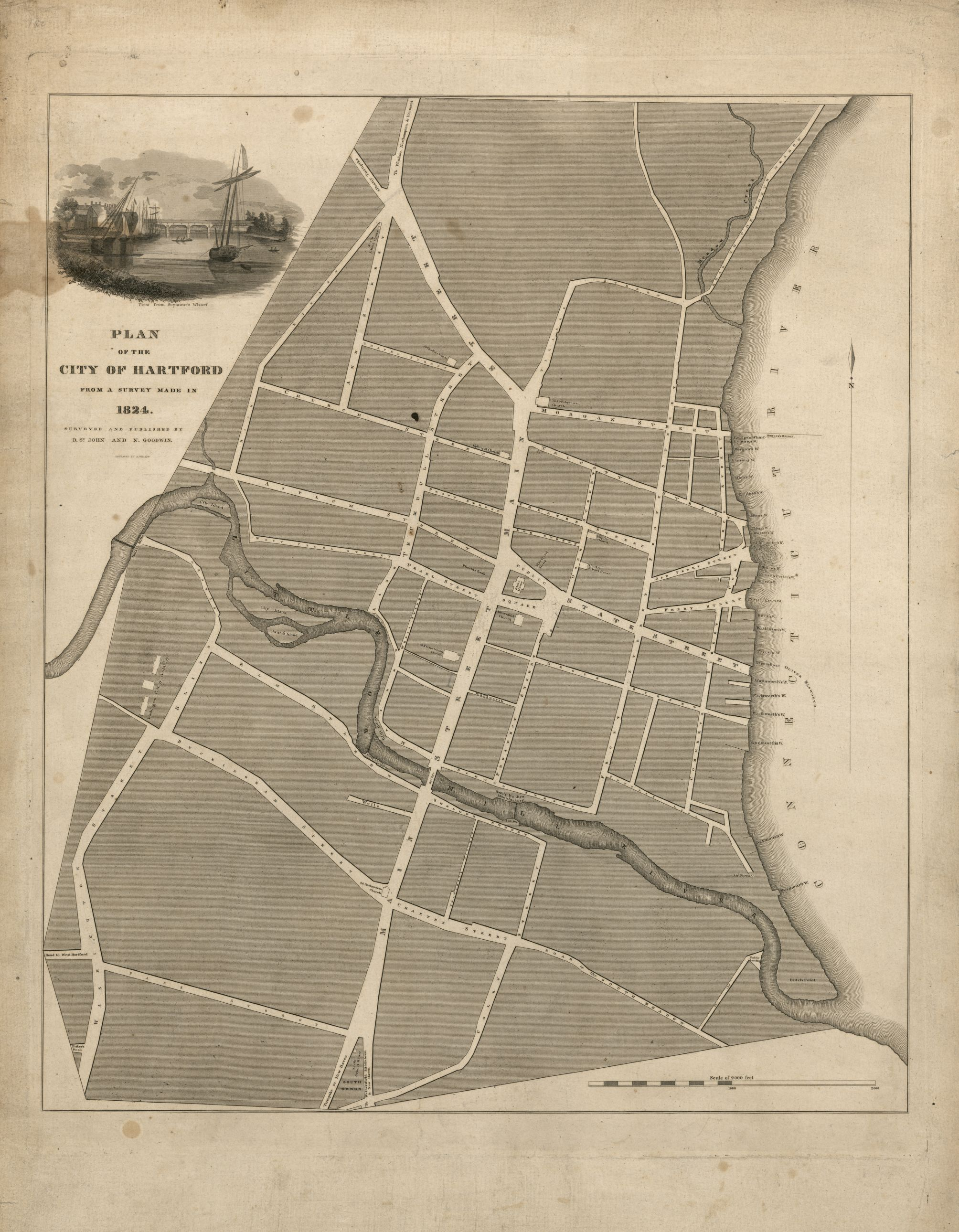 Plan of Hartford, Connecticut from an 1824 survey.